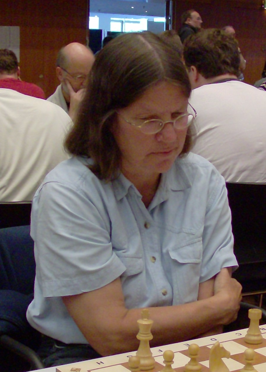 Gisela Fischdick, chess player from Germany